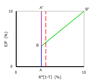 Capital Structure Substitution Equilibrium conditions